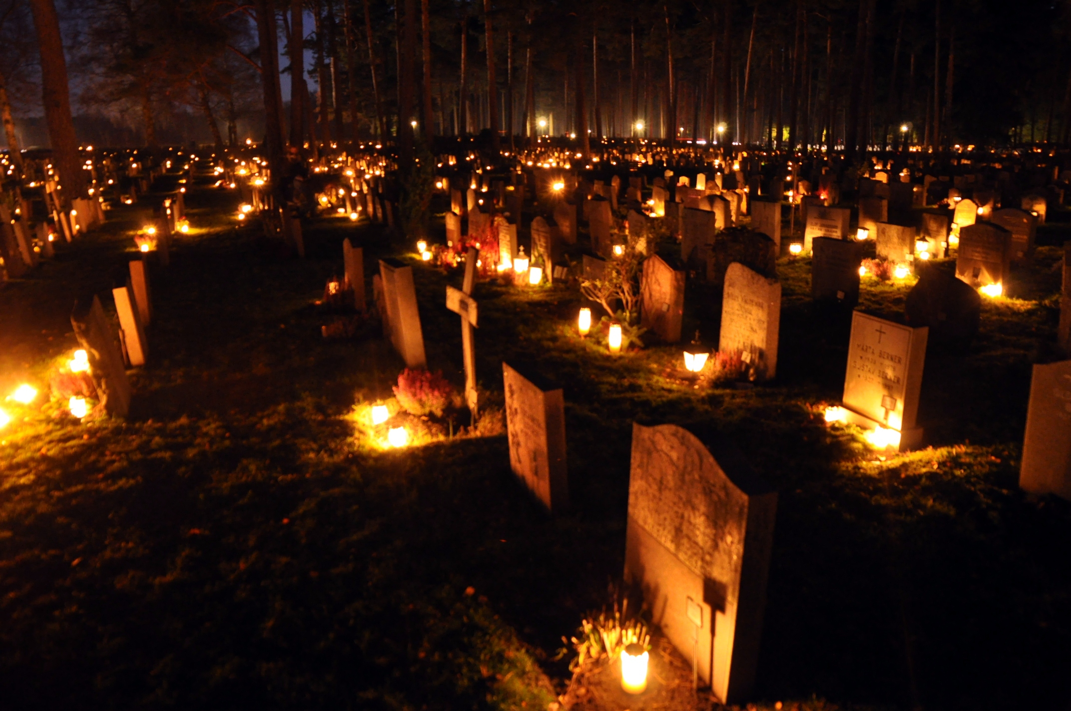 All Saints Day 2010 at Skogskyrkogården in Stockholm